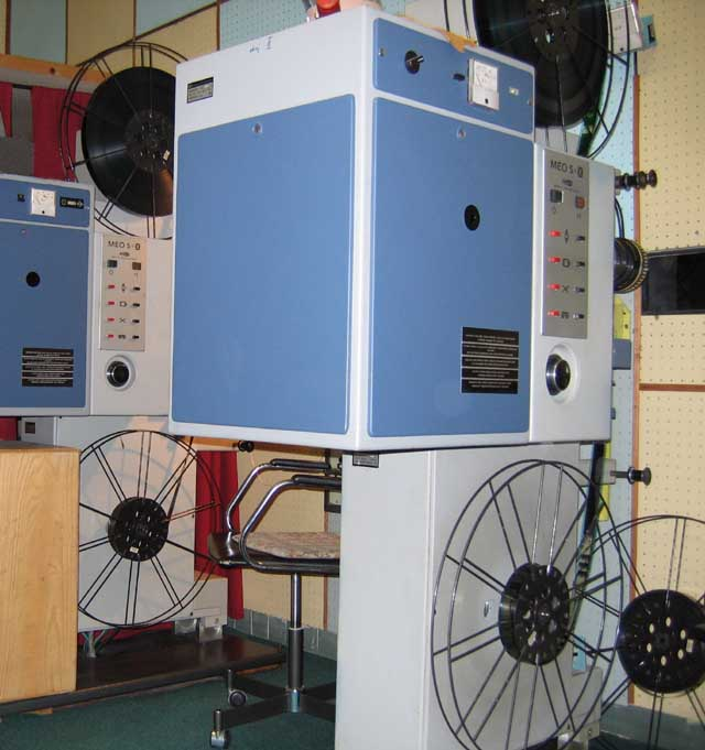 Meo 5 Movie projector